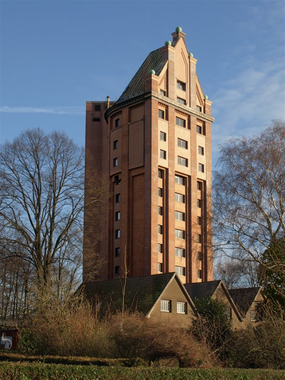 Hamburg-Stellingen (Germany), water tower , photo 2008